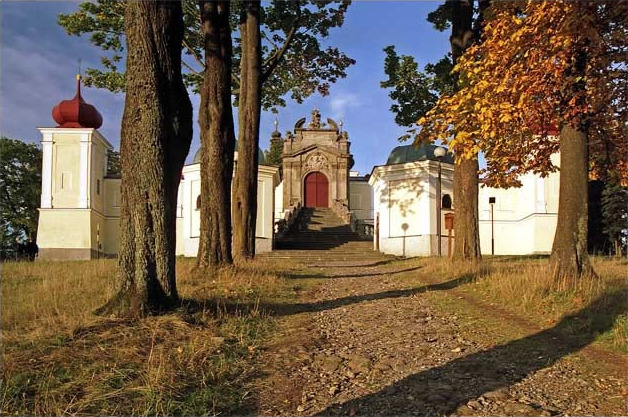 My photo from Avenue in Králíky.